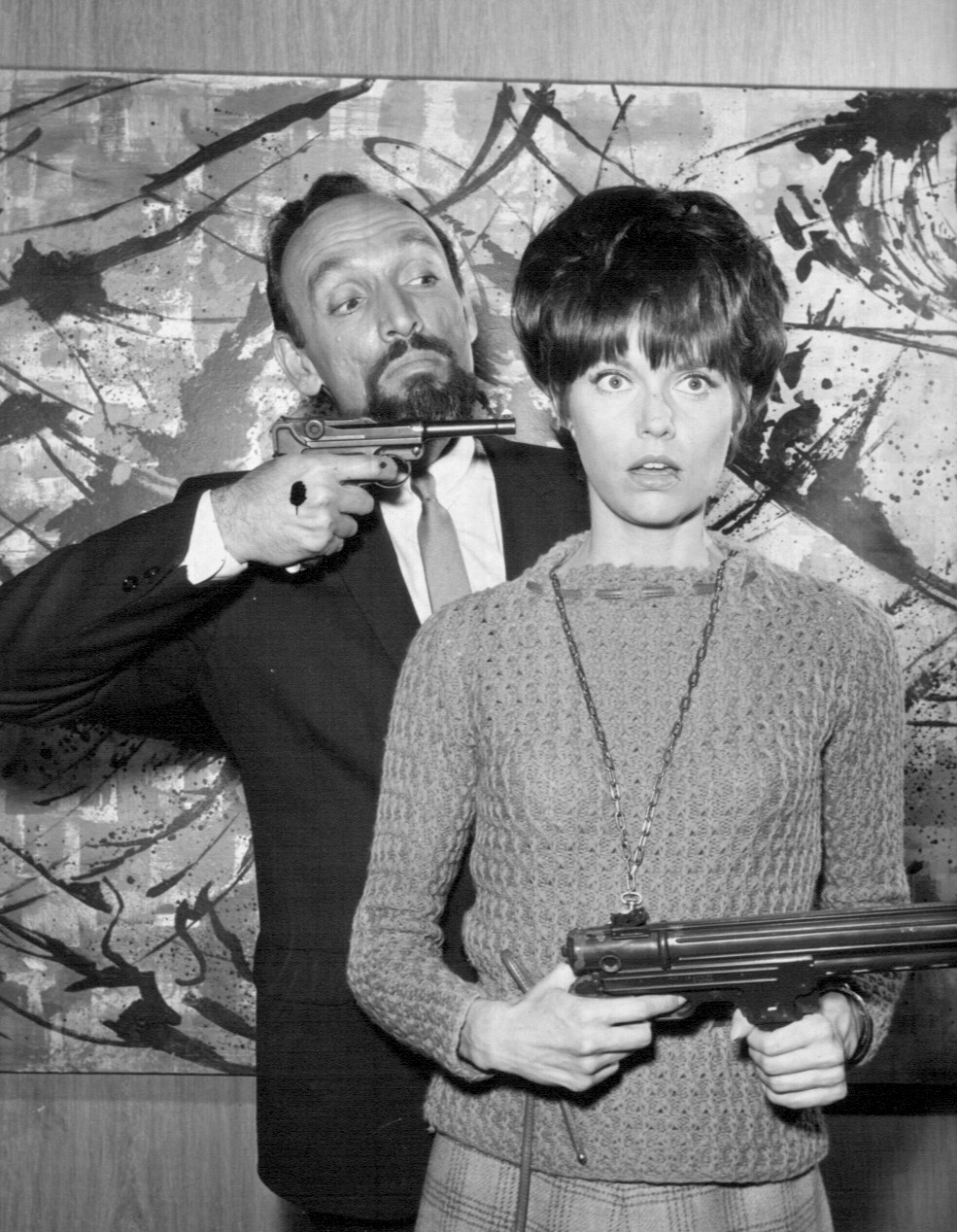 Photo of Barbara Feldon as Agent 99 and actor Joseph Ruskin from the television comedy series Get Smart!. There are no copyright marks on the item, which can be seen at the link.